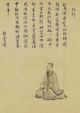 Southern and Northern Dynasties poet Xie Lingyun (385–433).